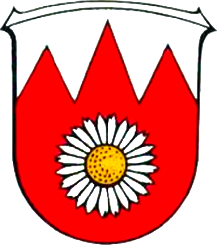 Coat of Arms of Ehrenberg